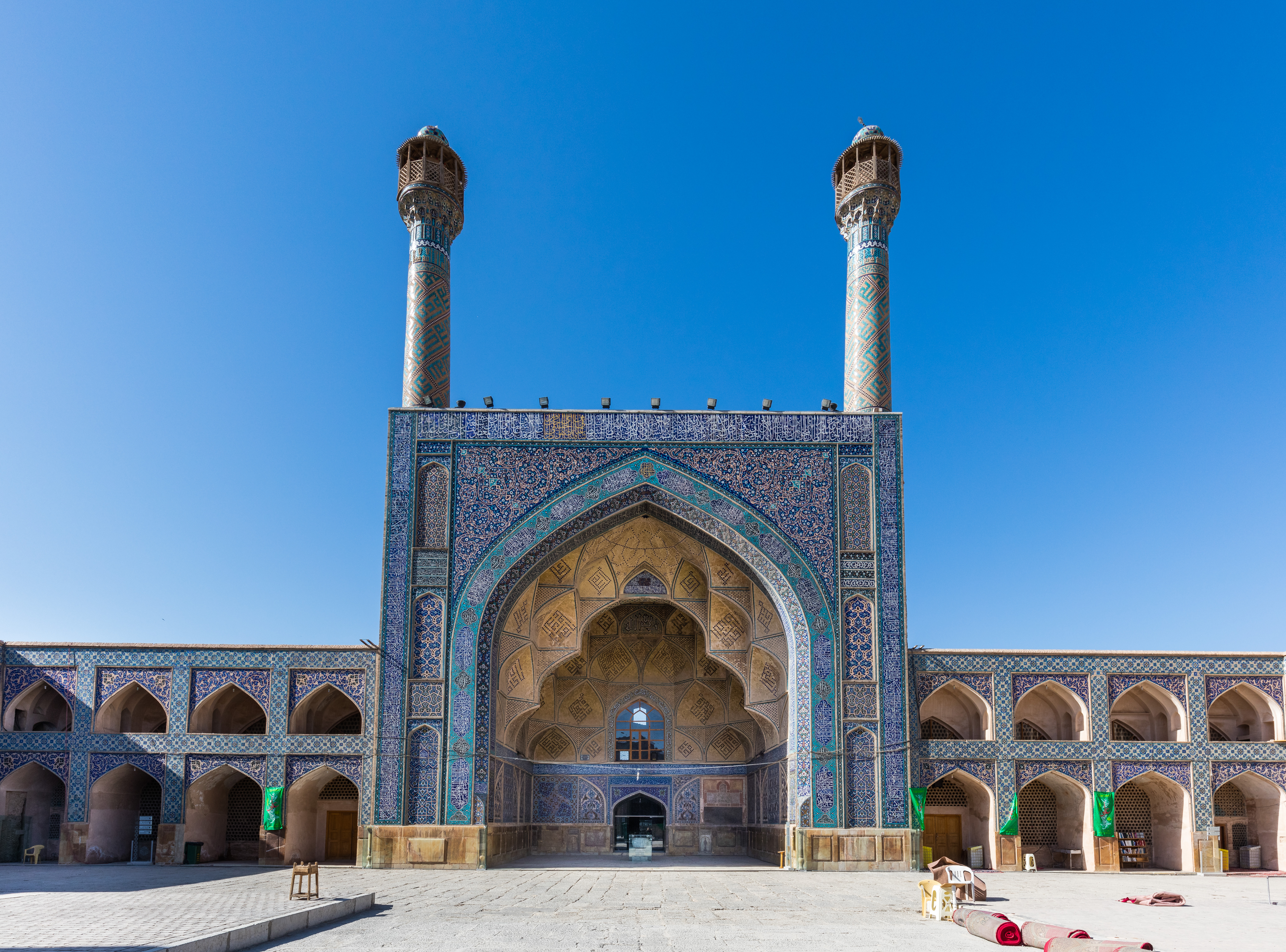 Jameh Mosque of Isfahan, Isfahan, Iran